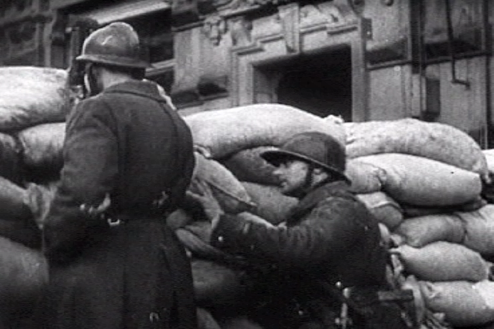 French troops setting barricades in Paris in case of an upcoming Nazi German invasion (May 1940). Screenhot taken from the 1943 United States Army propaganda film Divide and Conquer (Why We Fight #3) directed by Frank Capra and partially based on, news archives, animations, restaged scenes and captured propaganda material from both sides.